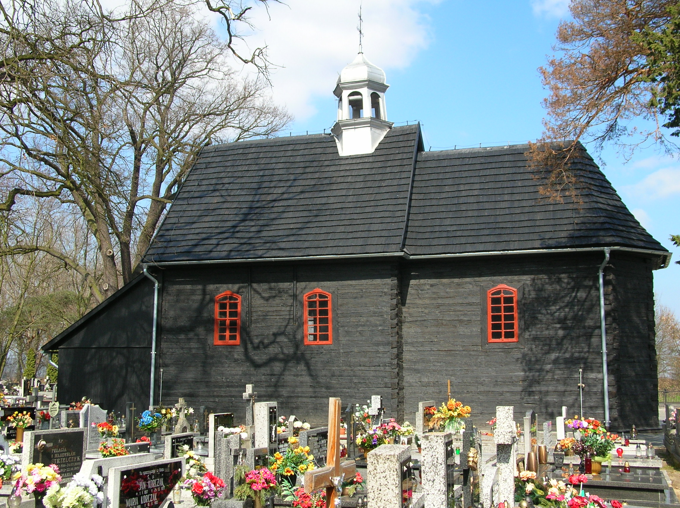 Wooden church in Podzamcze (Wieruszów)